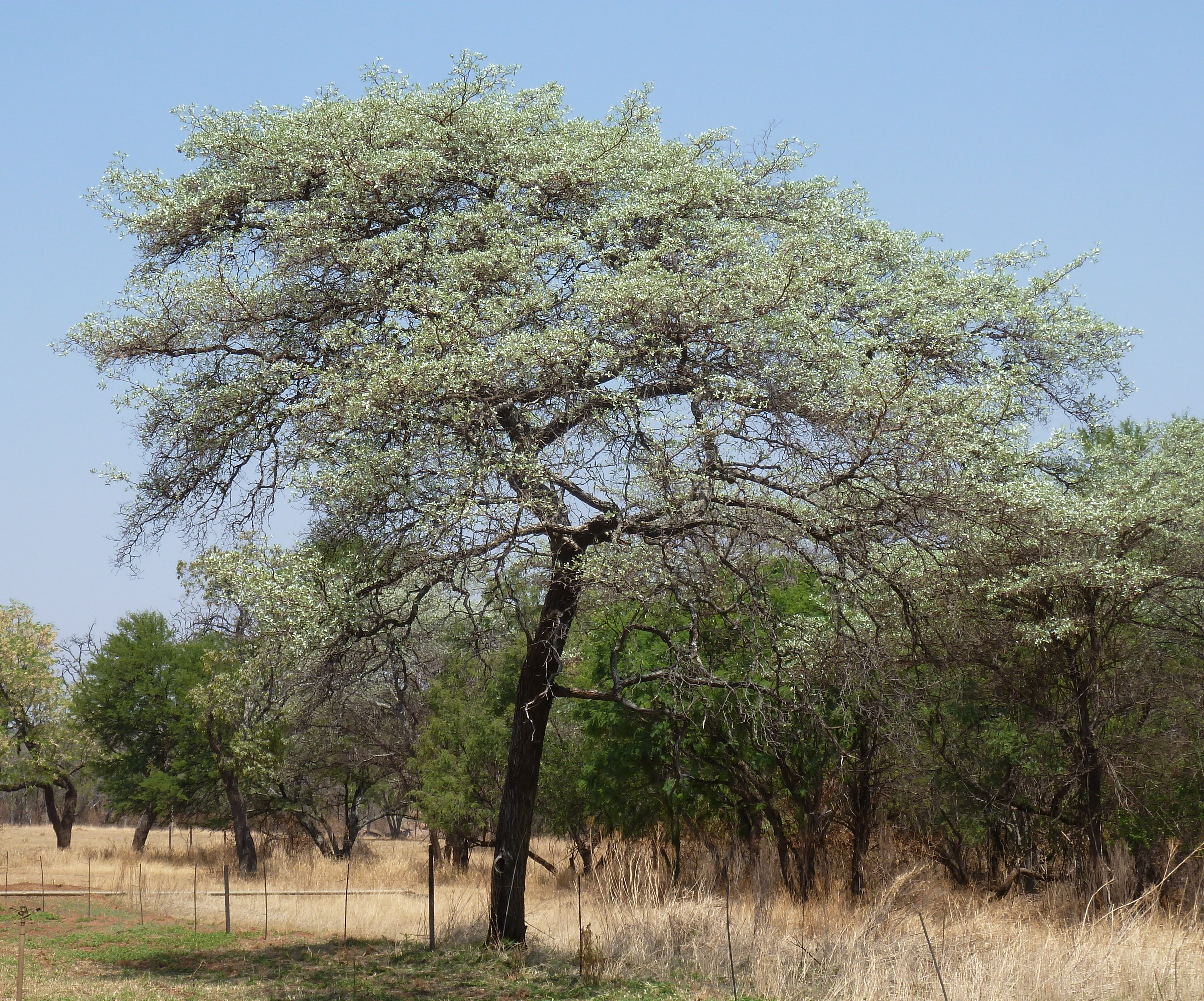 Silver cluster-leaf at Seringveld near Pretoria